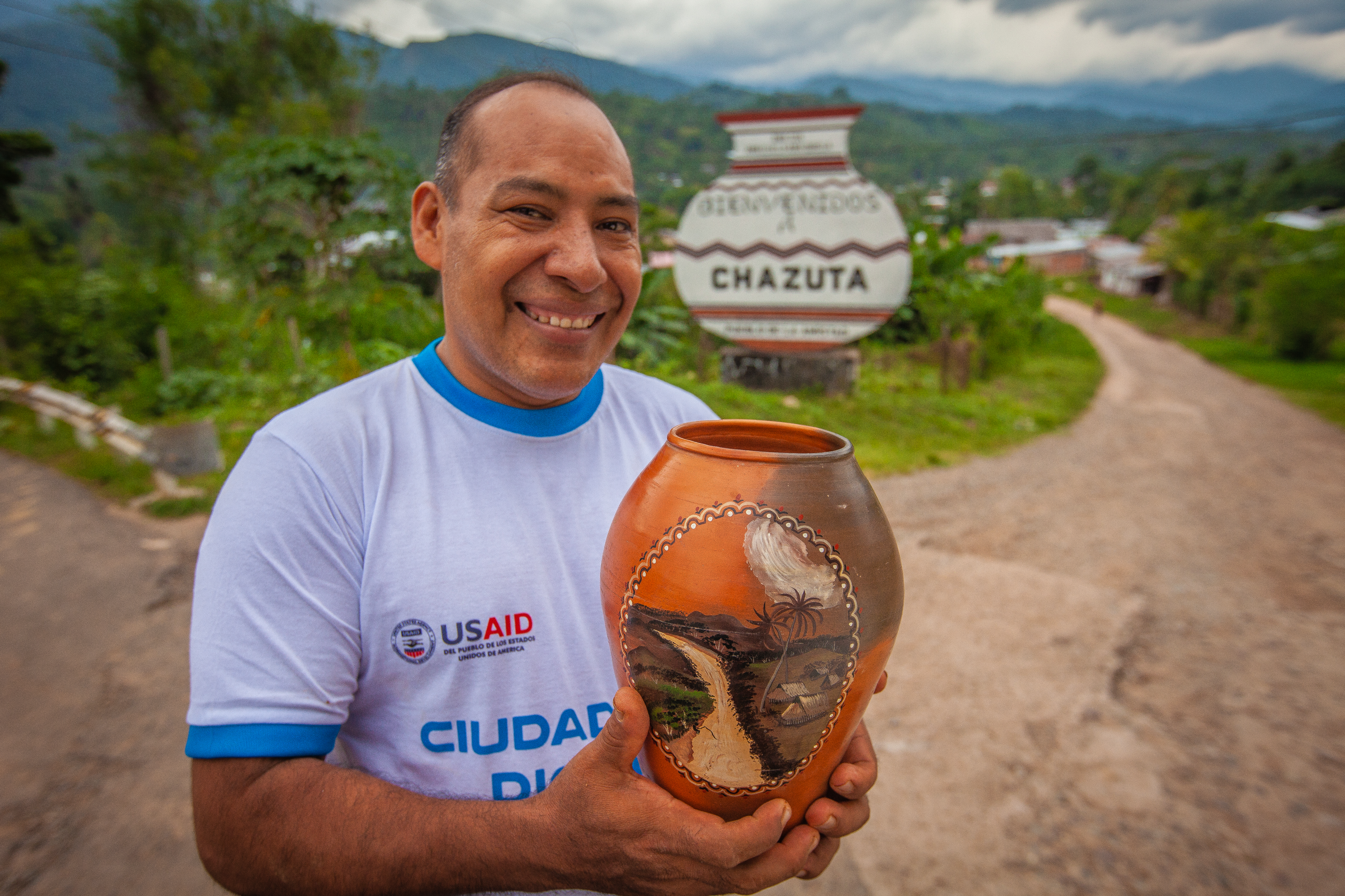 In 2018, USAID launched the second-annual Digital Development Awards (the “Digis”) to recognize USAID projects that harness the power of digital tools and data-driven decision making. The Peruvian Digital Inclusion in the Peruvian Amazon was one of five winners chosen out of the 140 applicants. From 2013-2017, el Centro de Información y Educación para la Prevención del Abuso de Drogas (CEDRO) built 38 technology centers (telecenters) in the regions of San Martín, Huánuco and Ucayali. To date, CEDRO has increased connectivity in 42 communities. More than 5,000 citizens—58 percent of which are women—received training from the telecenters in digital literacy, and nearly 5,200 women received training in financial literacy. Photos by Jack Gordon for USAID / Digital Development Communications